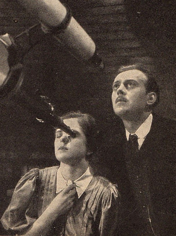 Vlasta Matulová and Karel Höger, Czech actors in the movie Turbina, 1941